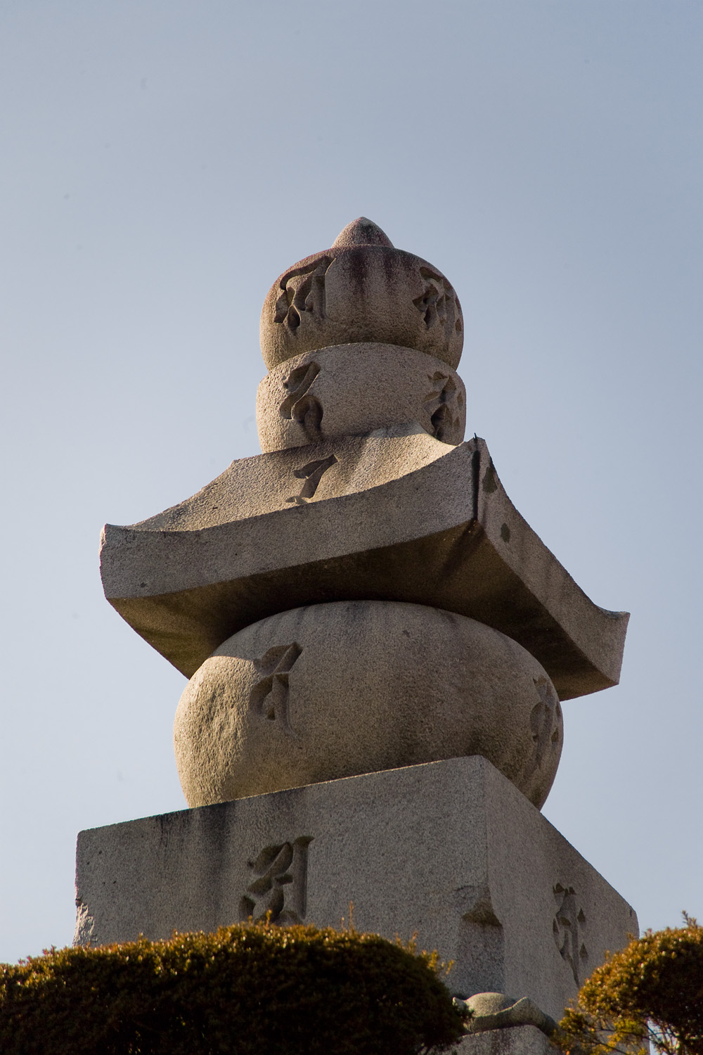 This photograph shows the marker atop the Mimizuka 耳塚, or Mound of Ears, in Kyoto, Japan. I took the photo on January 1, 2006, and contribute my rights in the file to the public domain; individuals and organizations retain rights to images in the file.